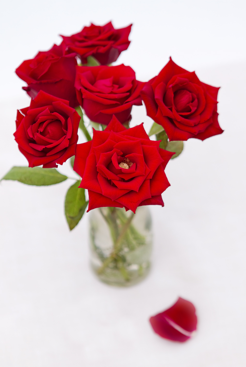 The flower shop up the road sells all their partially opened roses for $5 a bunch, this is only part of the bunch and whats even better is that they smell divine